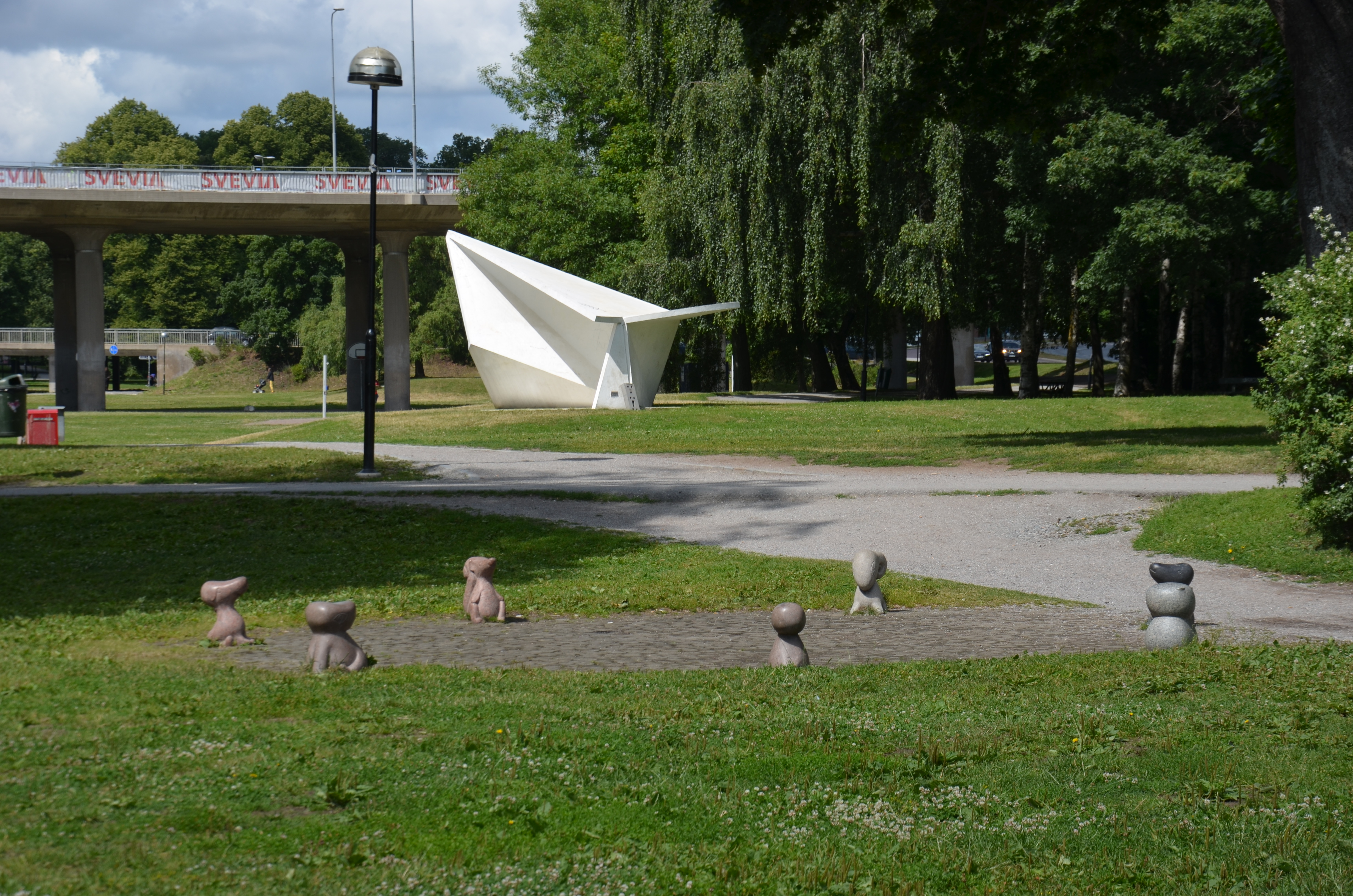 Egon Möller-Nielsens Djurriksdag i Rålambshovsparken i Stockholmn med Elli Hembergs Fjärilen i bakgrunden